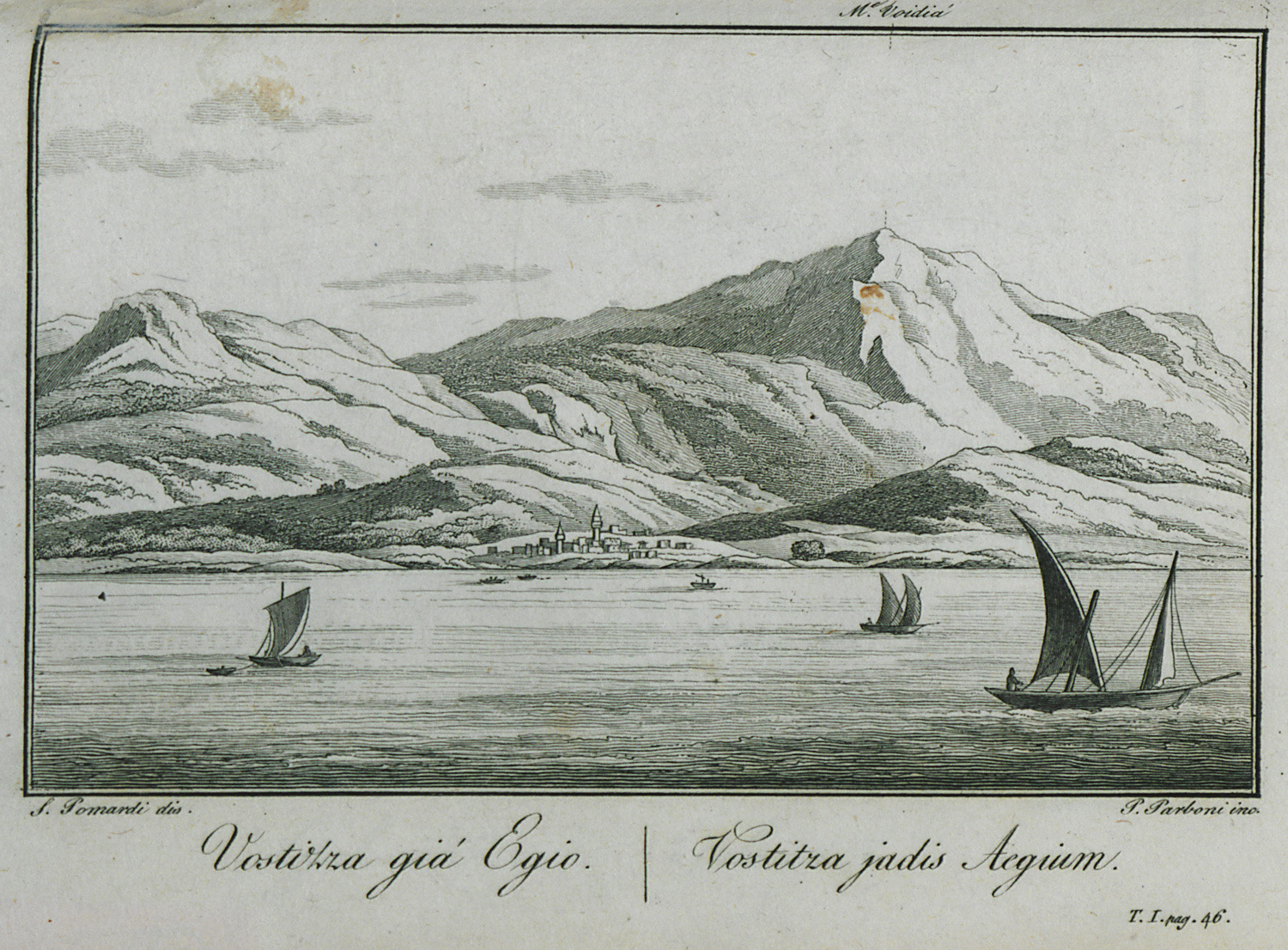 Illustration from A classical and topographical tour through Greece, during the years 1801, 1805, and 1806 (published in 1820) / Viaggio nella Grecia fatto negli anni 1804, 1805 e 1806, by Simone Pomardi.